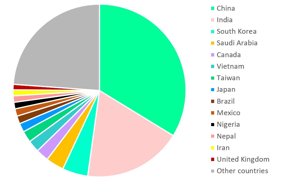 data sources